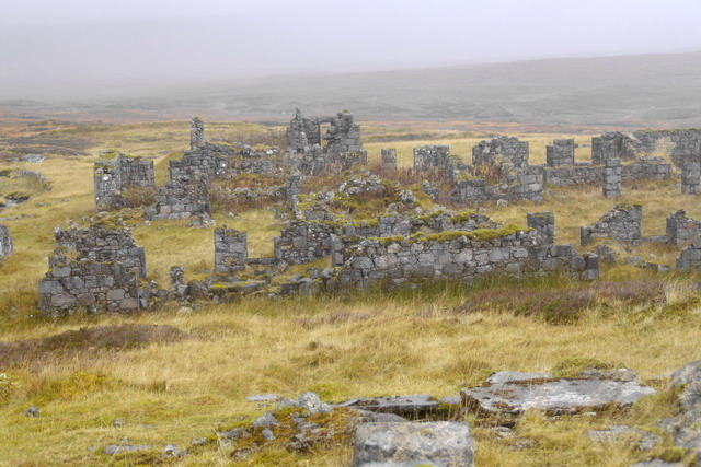 Corrour Old Lodge